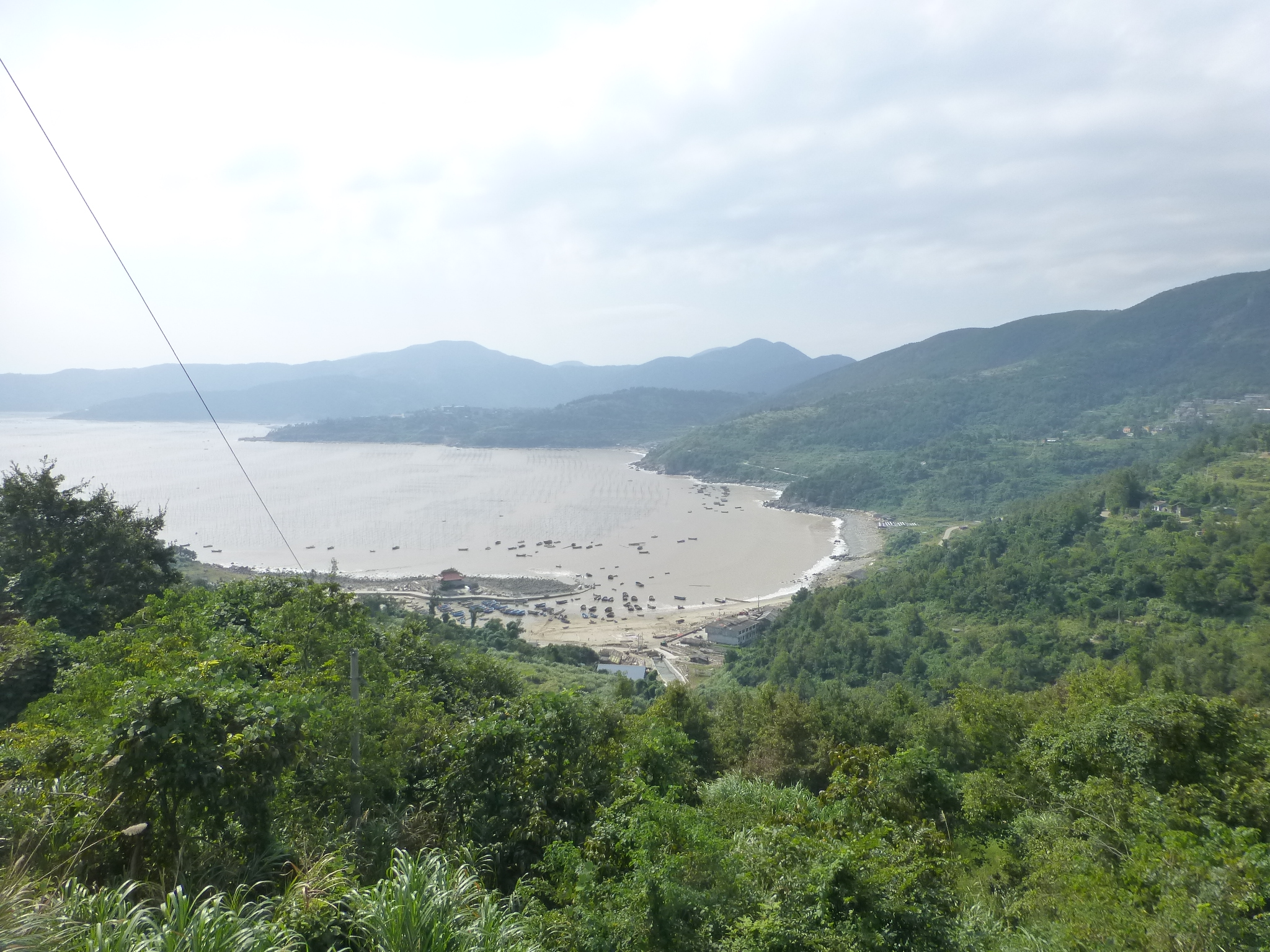 Photos taken on the road that crosses a mountainous area (Yandunshan 烟墩山) on the coast of Dayu Bay, between the former Longsha Township and Chixi Town. Cangnan County, Zhejiang, China.